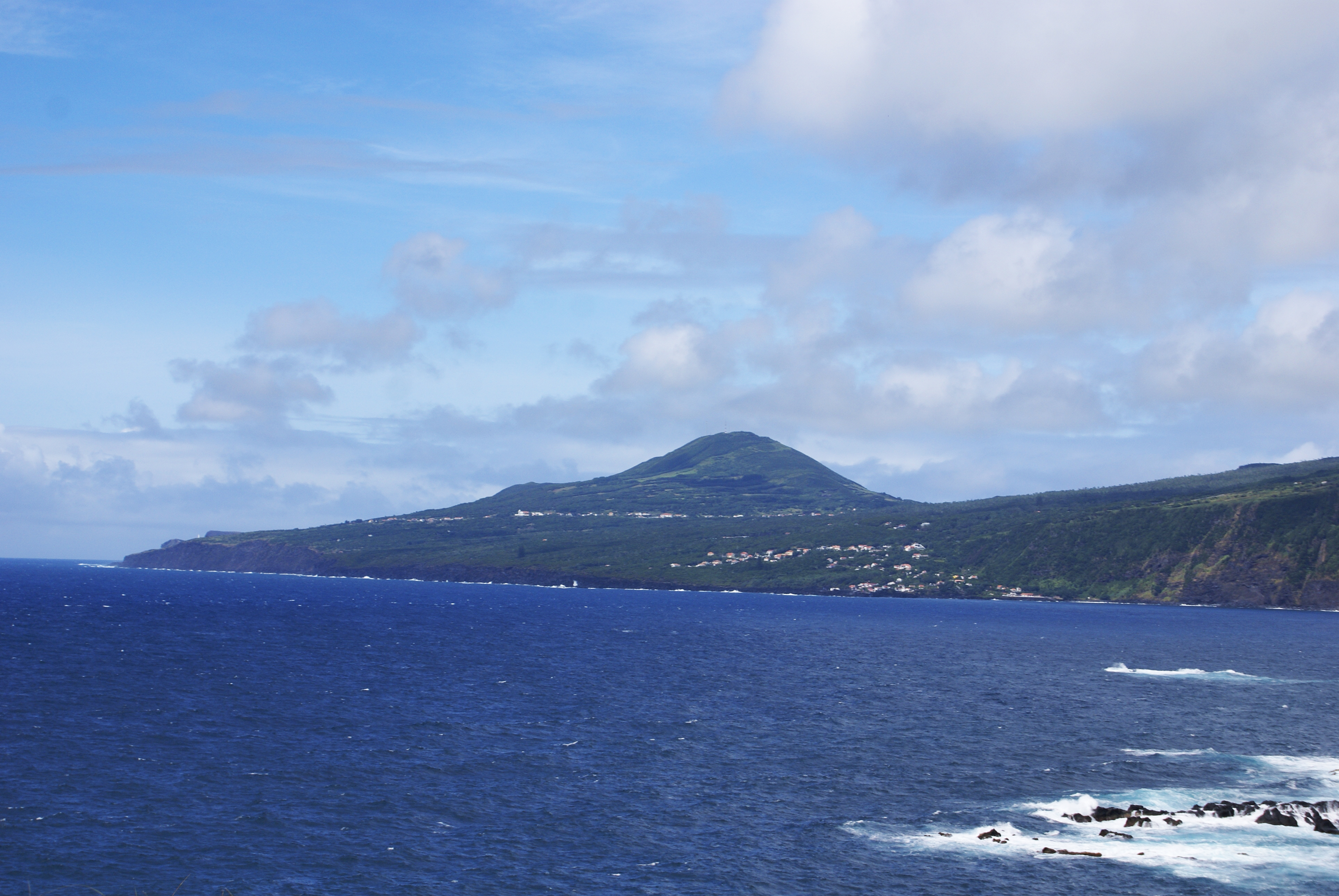 Morro de Castelo Branco, vista sobre o Varadouro, Castelo Branco, concelho da Horta, ilha do Faial, Açores, Portugal